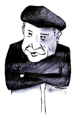 Murray Bookchin